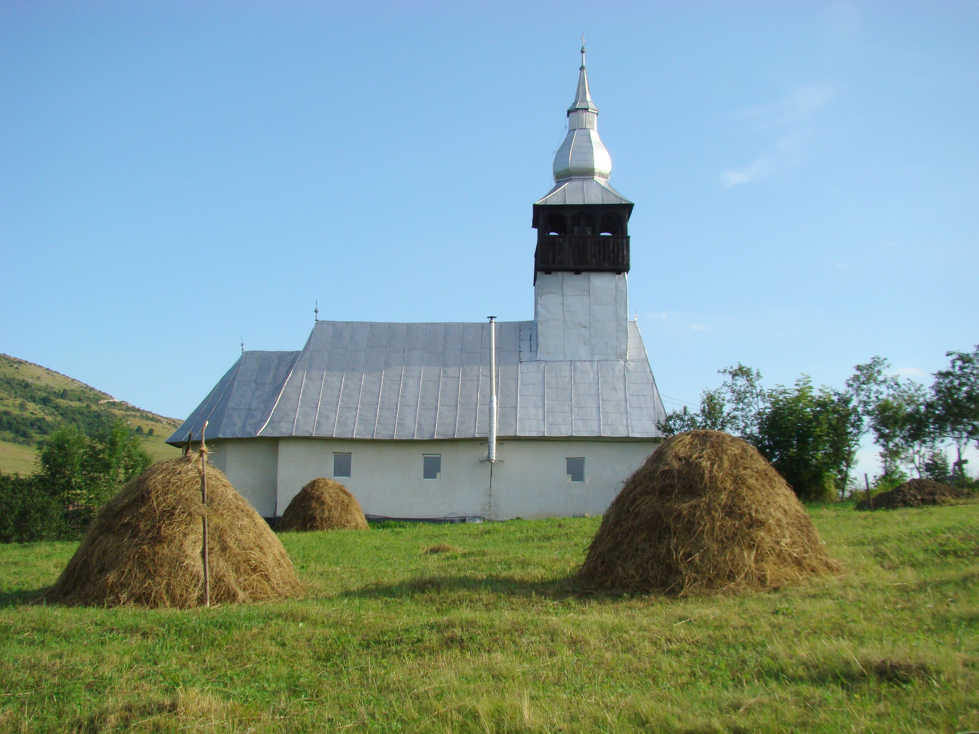 Wooden church in Petreștii de Mijloc, Cluj county, Romania